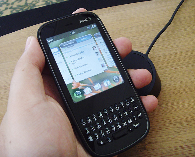 Palm Pixi from Sprint